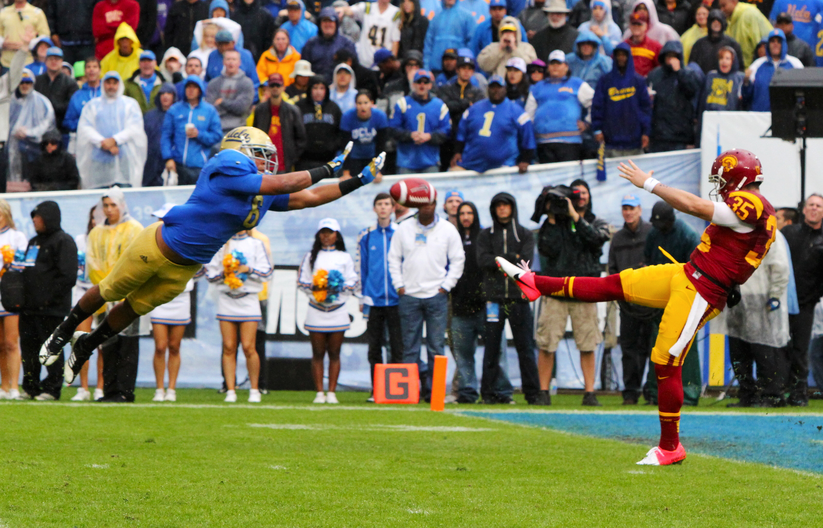 UCLA LB Eric Kendricks blocking a punt vs USC